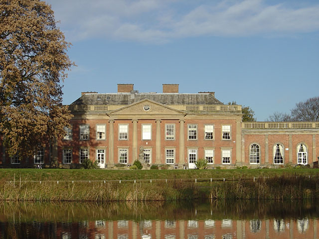 Colwick Hall South Façade and terrace. Basically this is the work of Jhn Carr of York dating from the 1770s. The Hall is now a hotel